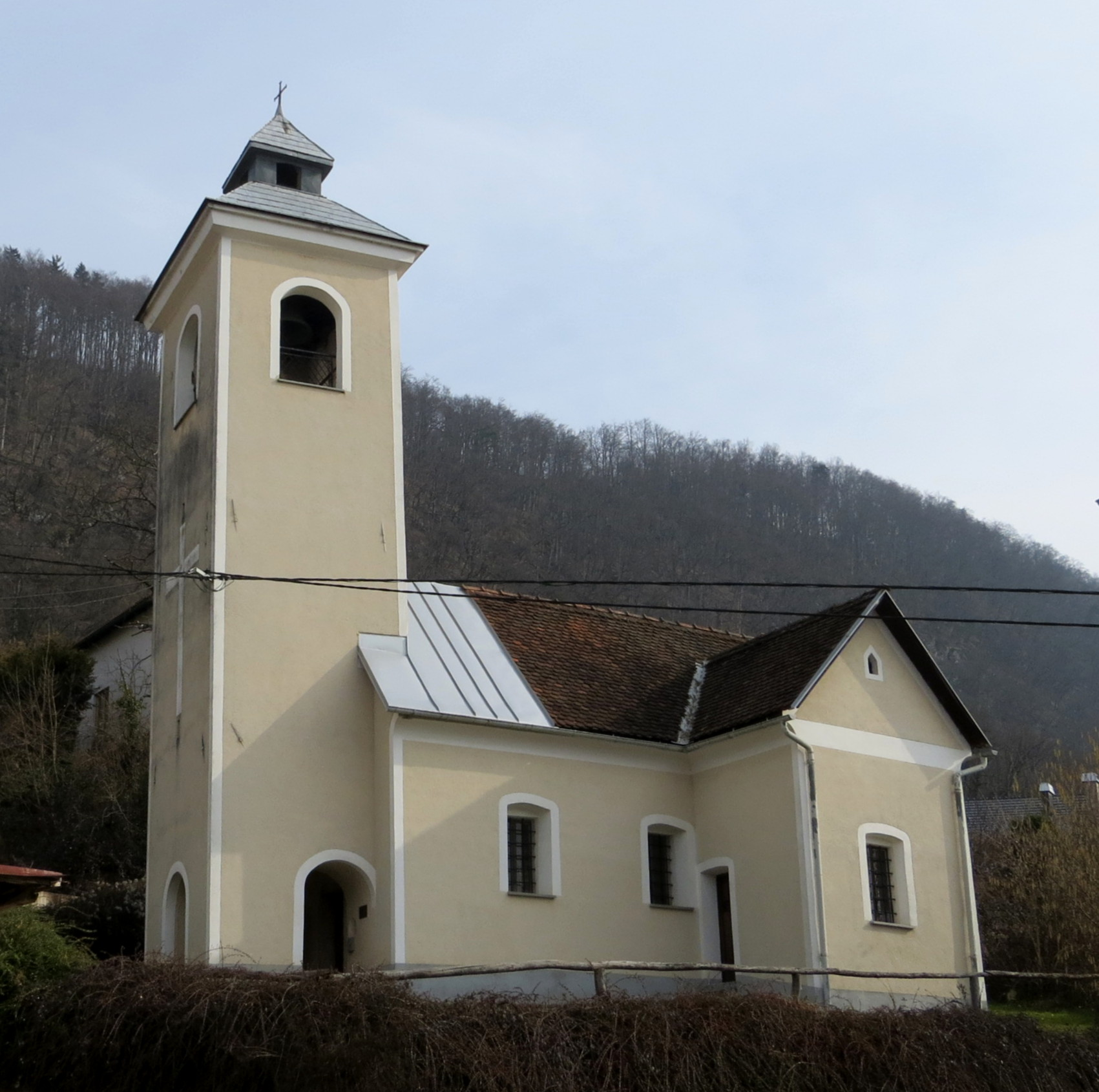 Holy Cross Church in Rašica, City Municipality of Ljubljana, Slovenia